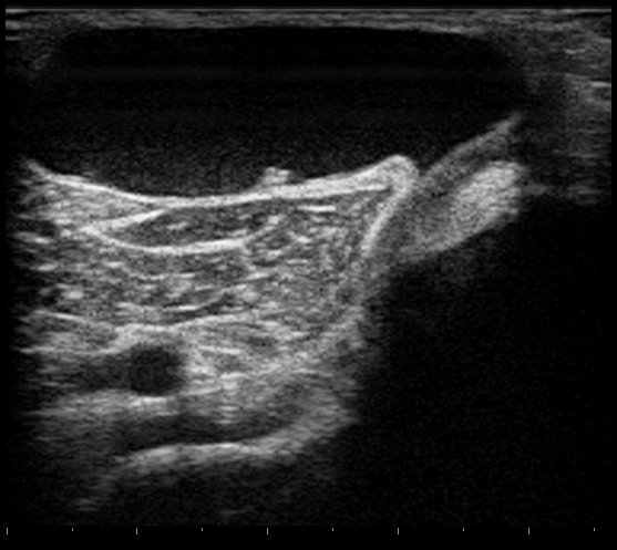 A Baker's cyst, also known as a popliteal cyst, is a benign swelling of the semimembranous bursa found behind the knee joint. Medical ultrasound image. Provided as-is. Please feel free to categorise, add description, crop.